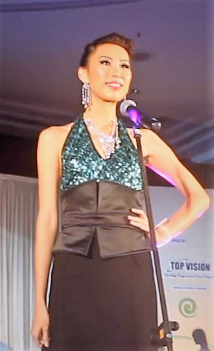 Miss Malaysia Earth 2015 Q&A Session - Danielle Wong (Number 12) Miss Malaysia Earth 2015 Q&A Session - Danielle Wong